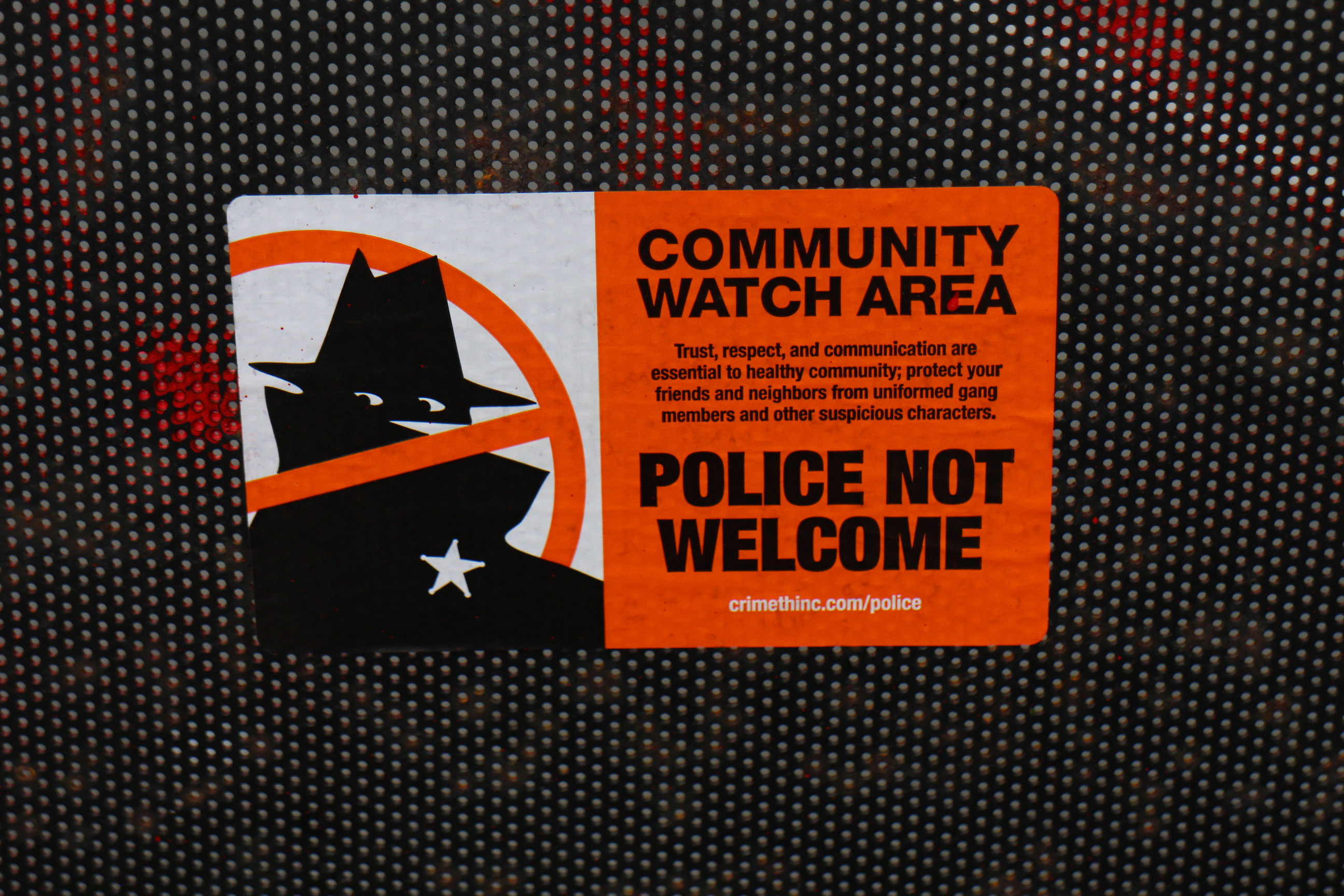 "Capitol Hill Autonomous Zone" area during the George Floyd protests in Seattle, Washington